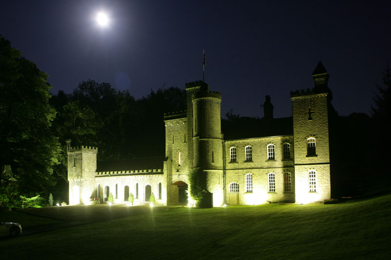 Carr Hall Castle at Night